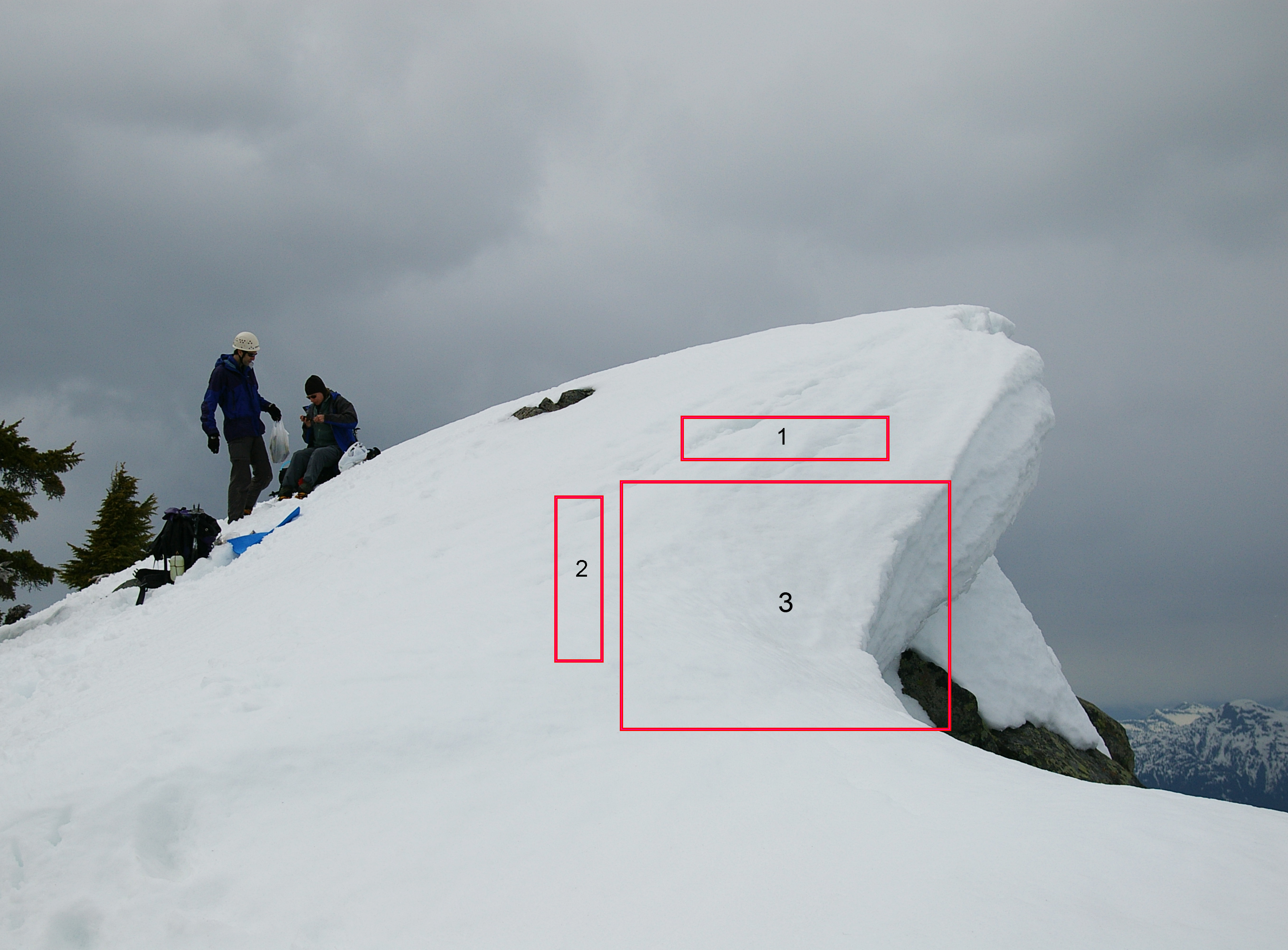 Summit of Mount Windsor, British Columbia, showing a cornice (overhang) of snow that is about to collapse. The original photo is annotated as follows: 1) "Cracks, just before it gave way" 2) "The new edge after the cornice fall" 3) "This area fell off right after I took this shot"